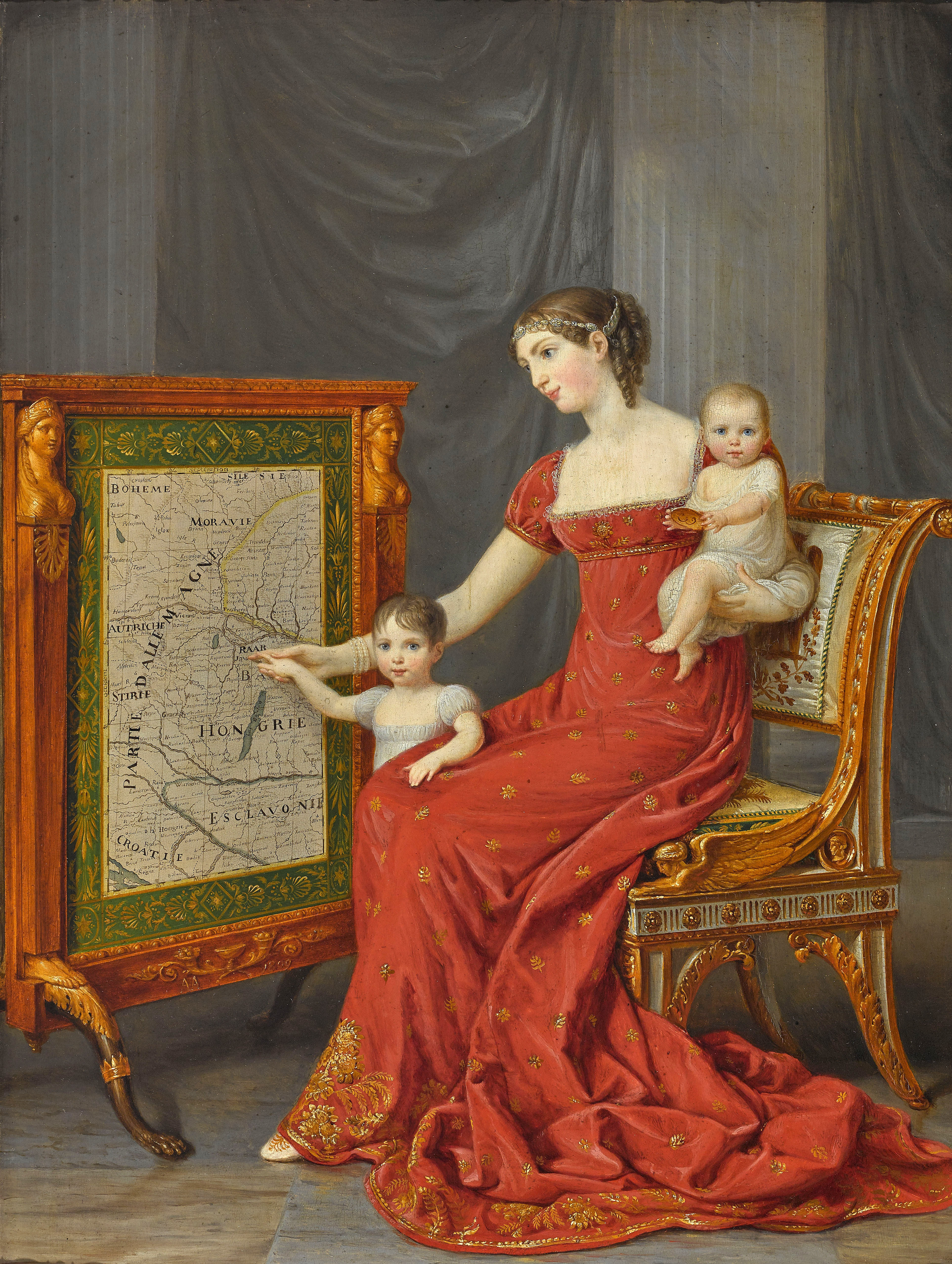 Princess Augusta of Bavaria with her children Josephine and Eugenie. Princess Josephine, helped by her mother, points her finger at a map of the kingdom of Hungary and Raab (Györ) where her father Eugène de Beauharnais won the battle of Raab on June 14, 1809.